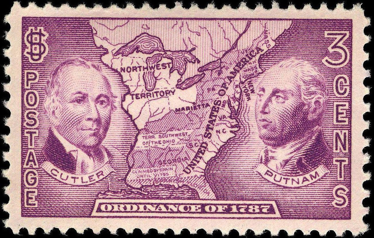 US Postage Stamp: Ordinance of 1787, Issue of 1937, 3c